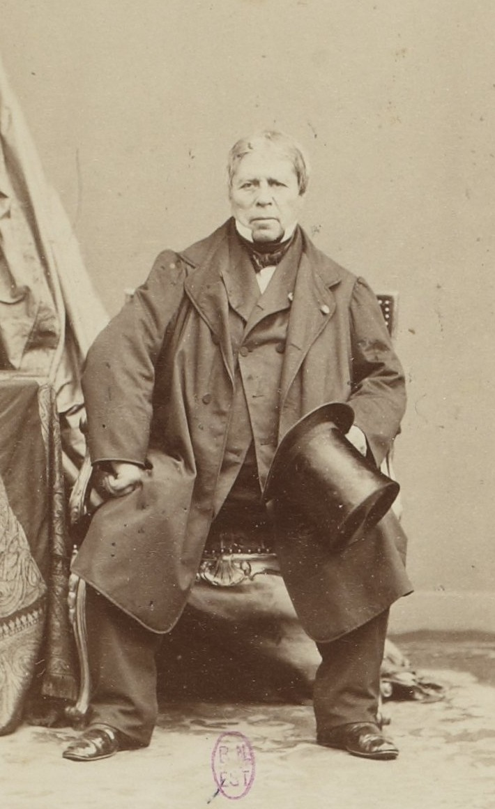 Portrait photograph of Jean-Auguste-Dominique Ingres (1780-1867)